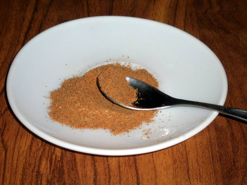 Chaat masala in a dish. Photo taken with an Olympus u810/S810 digital camera.